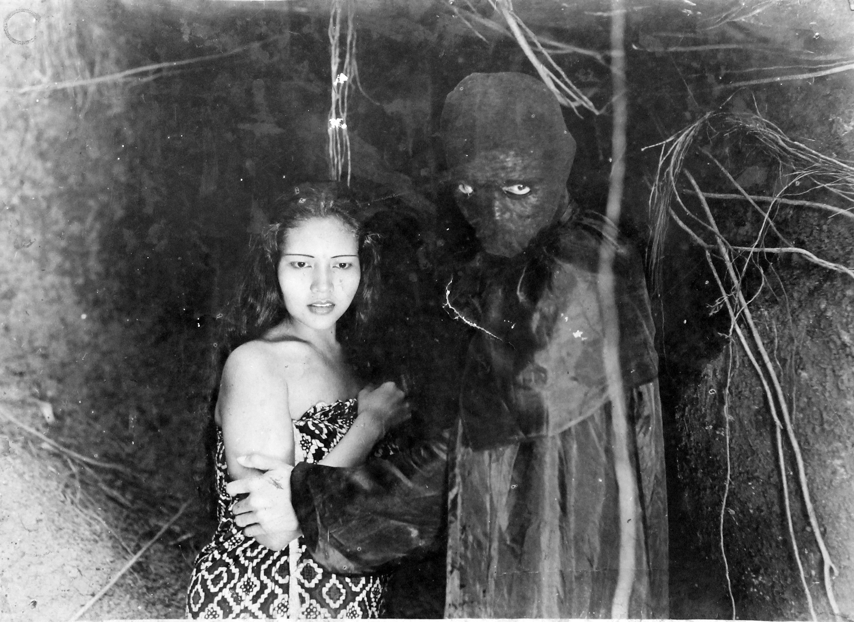 A film still from the 1939 movie Gagak Item.